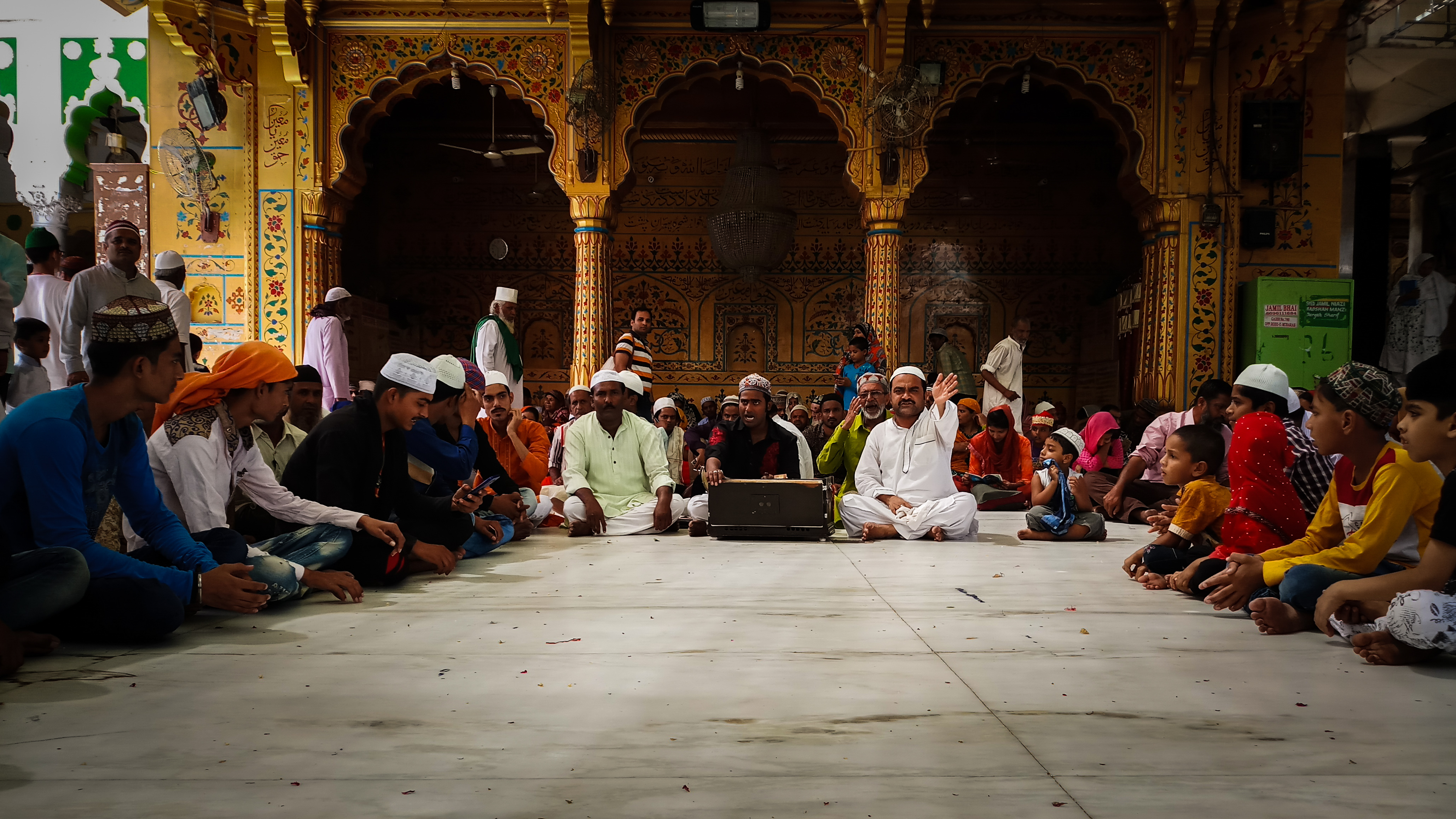 Qawalli sang by the pilgrims and the locals. A must attend if visited.